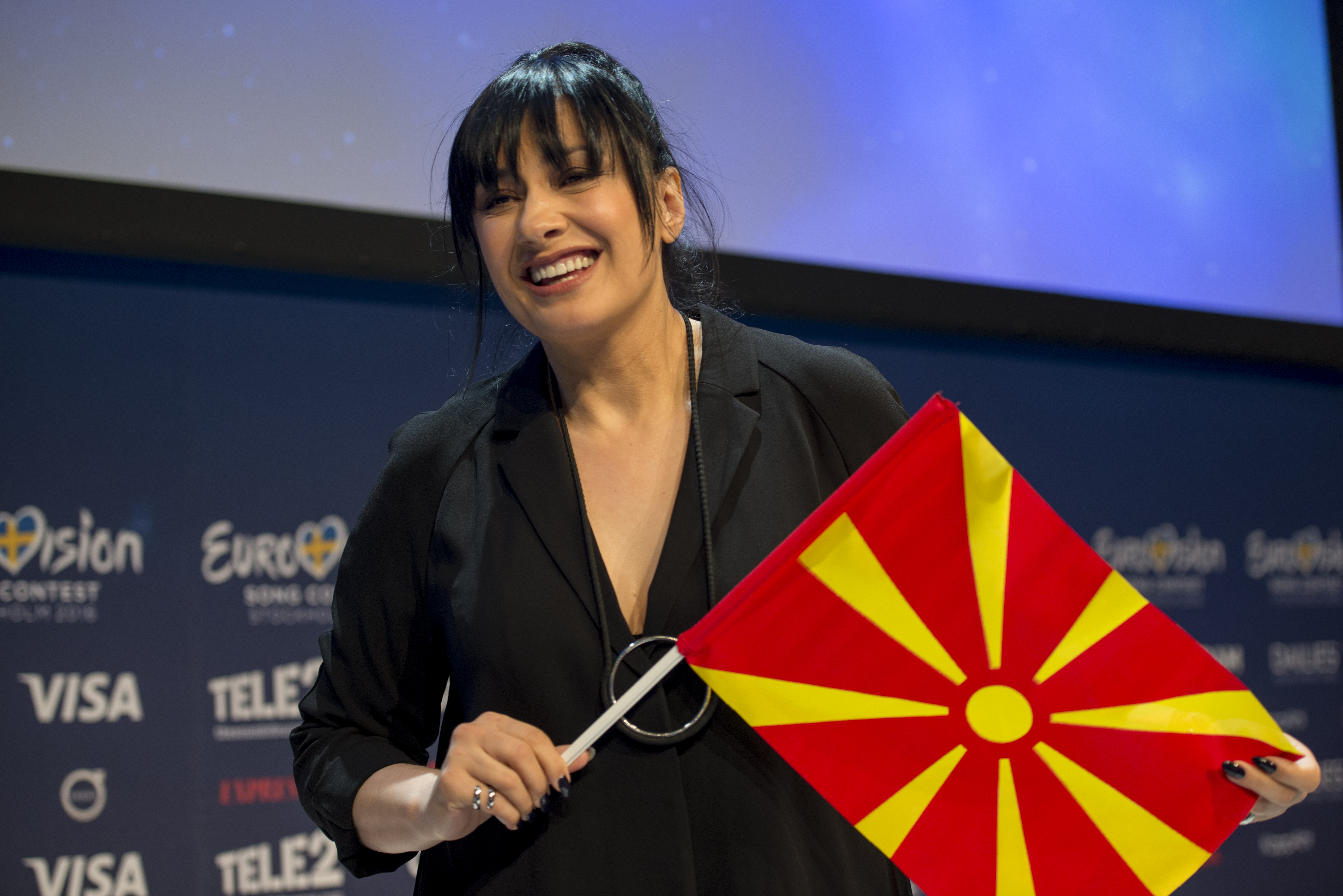 Kaliopi at a Meet & Greet during the Eurovision Song Contest 2016 Stockholm. (Help translate this text)